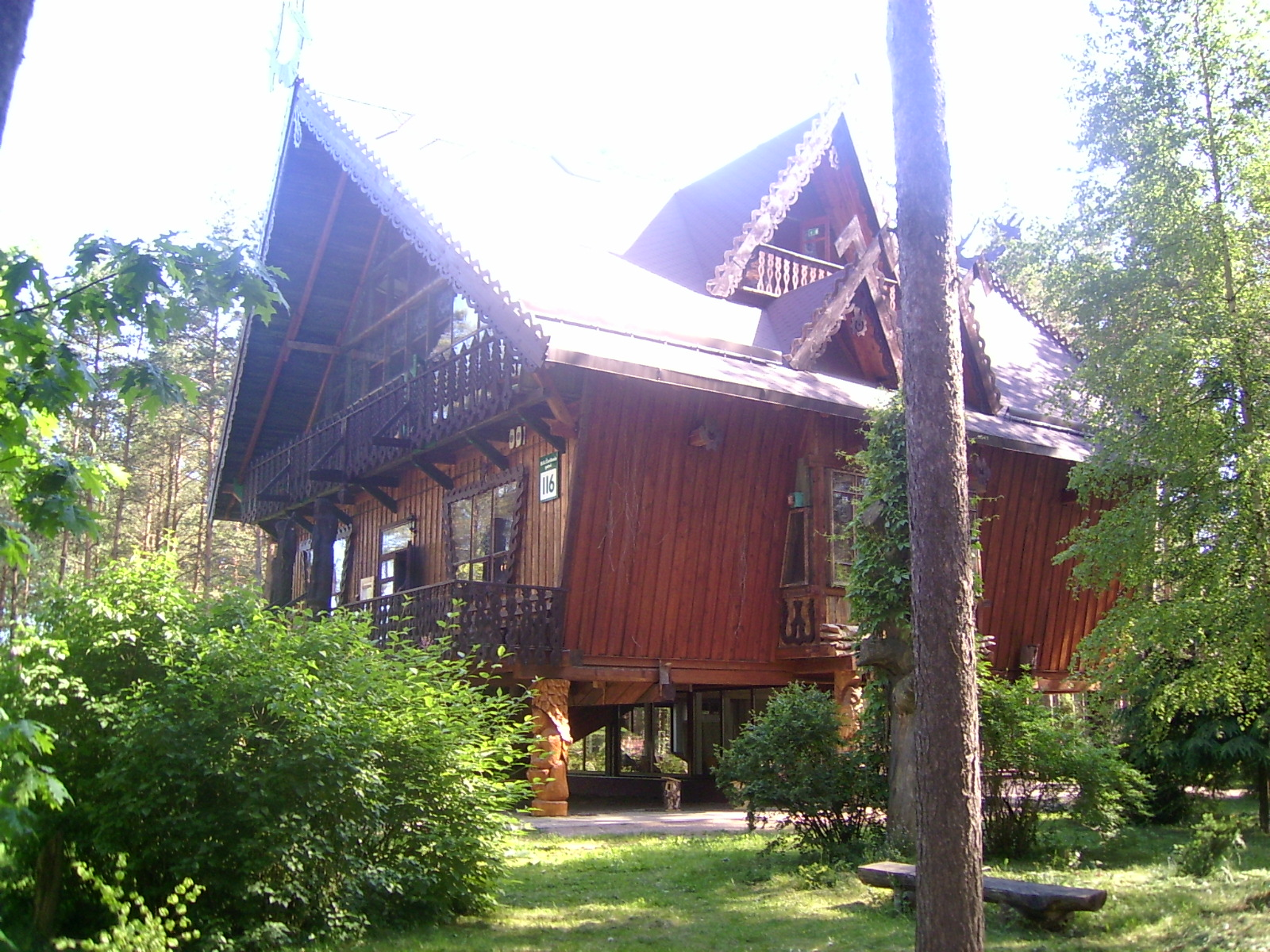 Druskininkai (Lithuania), museum of forestry "Echo of the Forest" from the side.